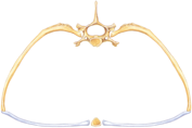 Thorax deformed by lung compromise (caudal view). Turtle type deformation